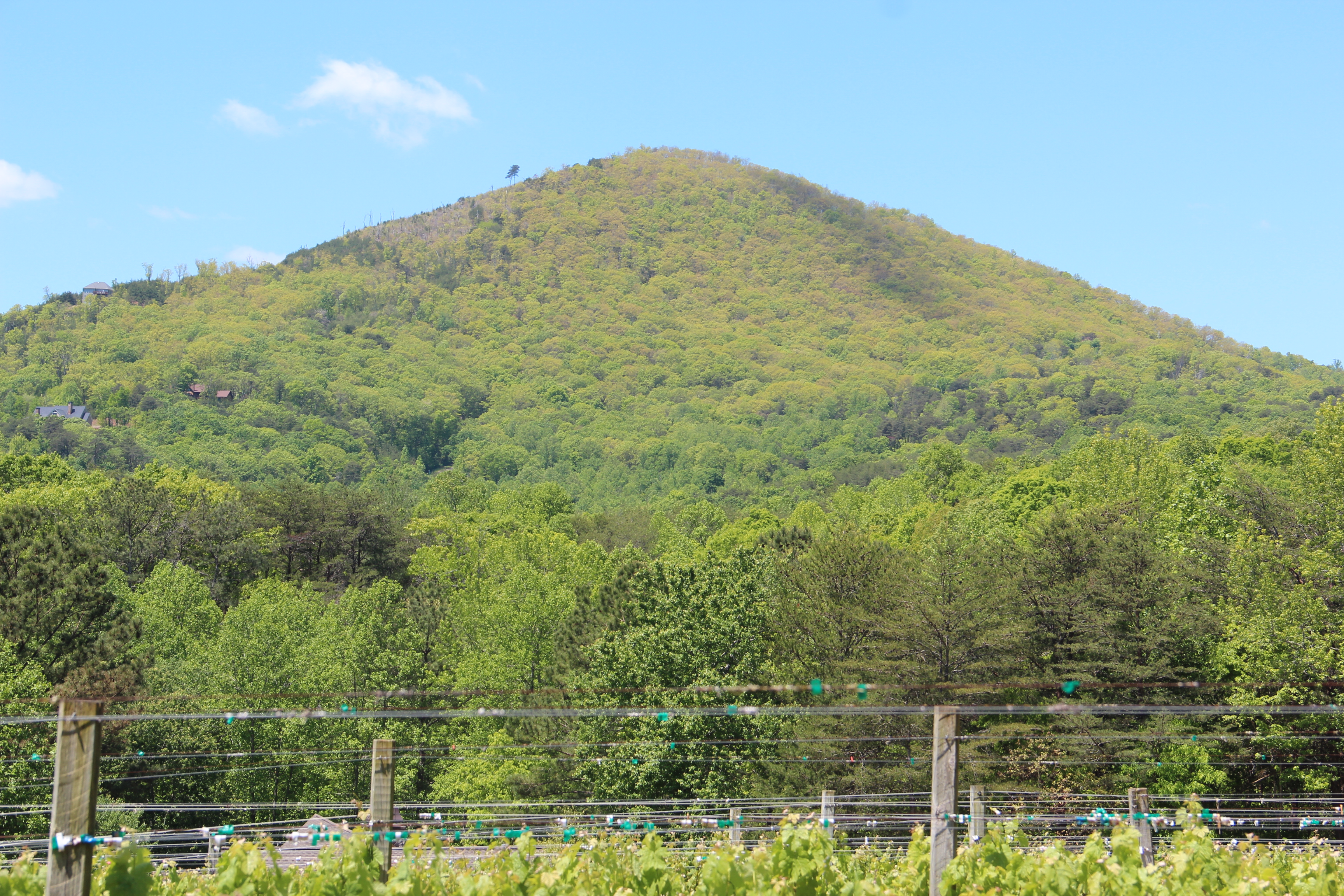 Sharp Mountain viewed from the Sharp Mountain Vineyards, Pickens County, Georgia